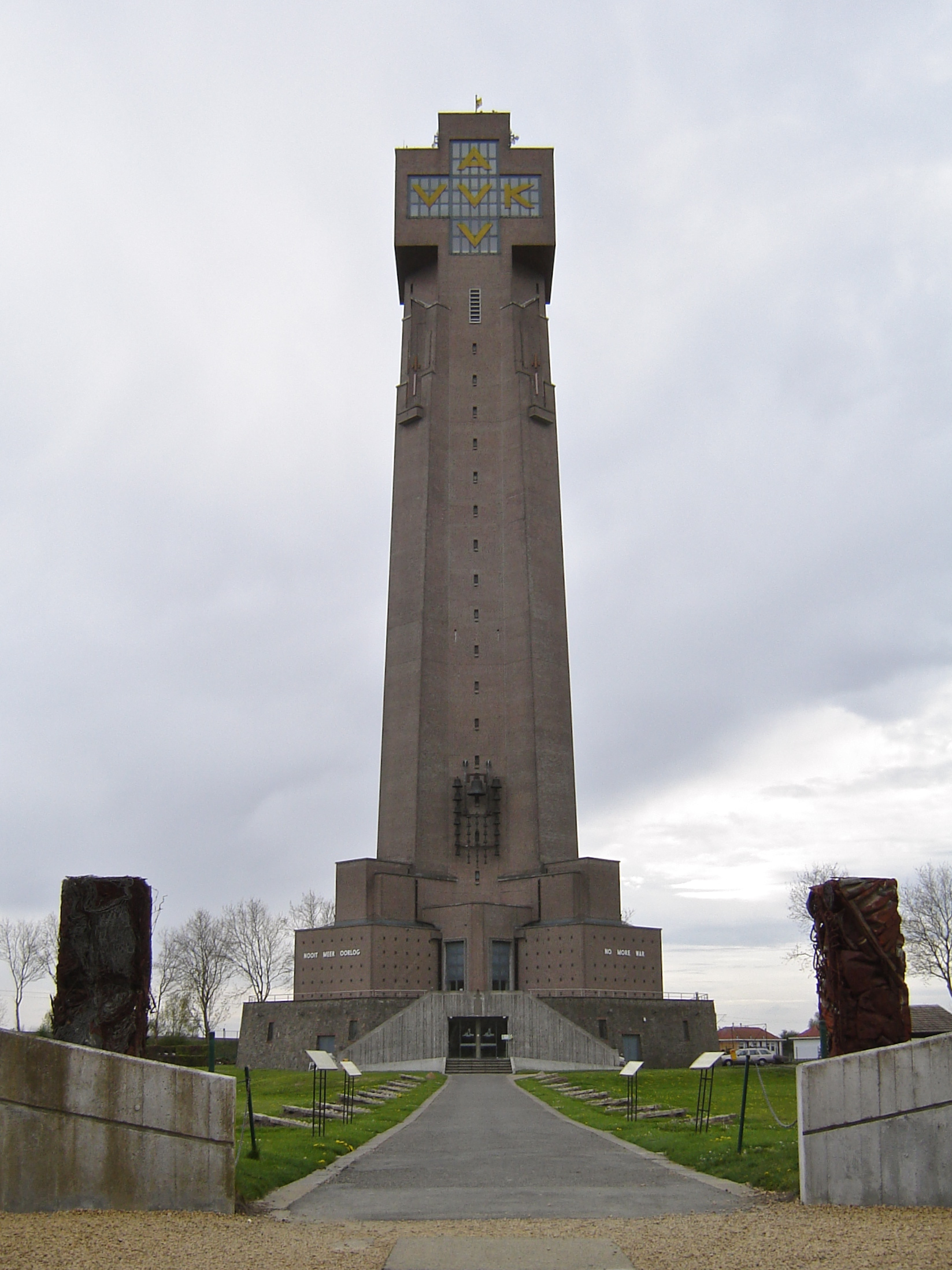 IJzertoren in Kaaskerke. Kaaskerke, Diksmuide, West Flanders, Belgium